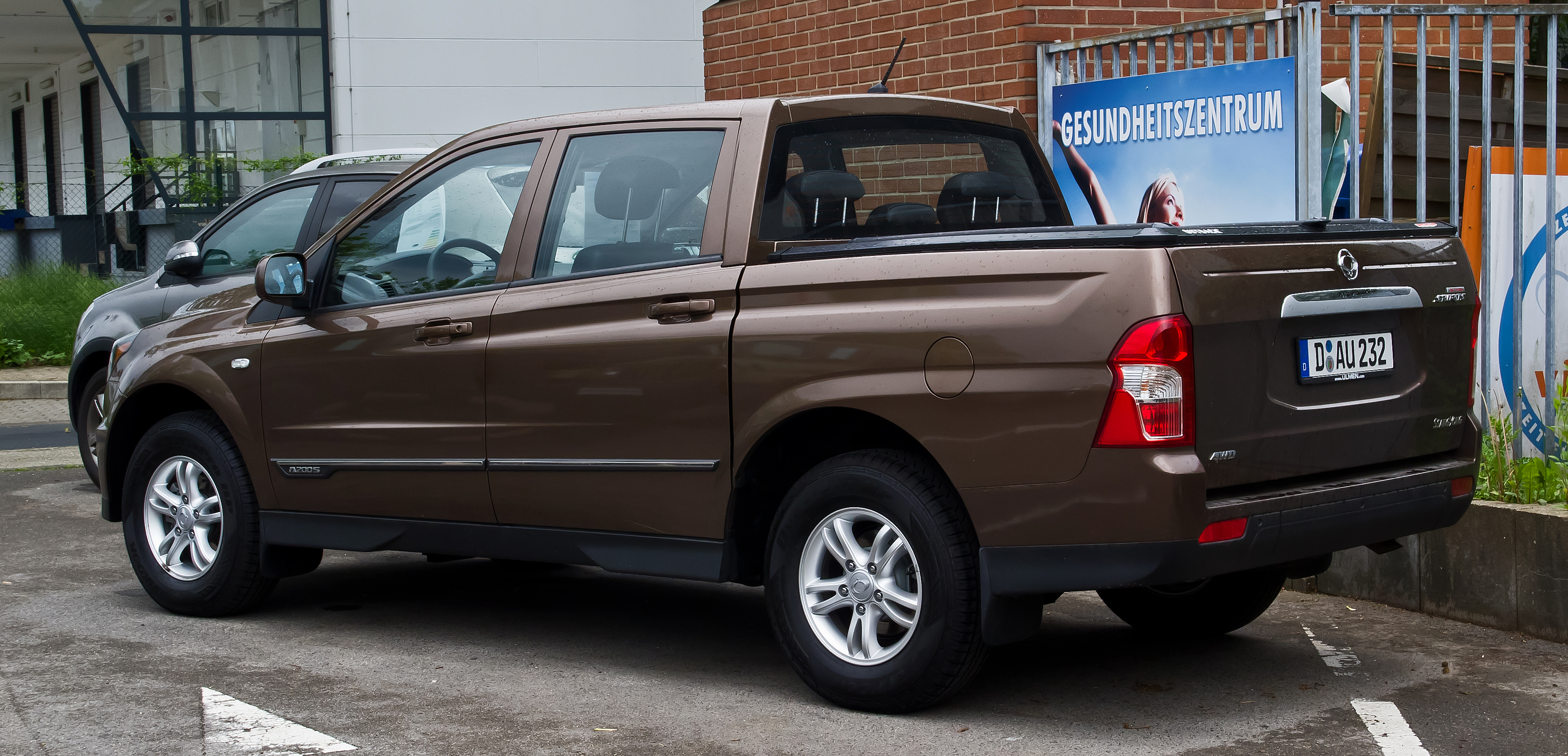 SsangYong Actyon Sports D200DTR 4WD Sapphire (Facelift)